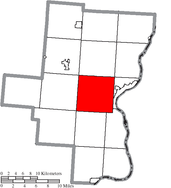 Map of the municipal and township boundaries of Gallia County, Ohio, United States, as of the 2000 census, with the location of Green Township highlighted. Township borders are shown only in unincorporated areas in order to differentiate incorporated and unincorporated areas more clearly.